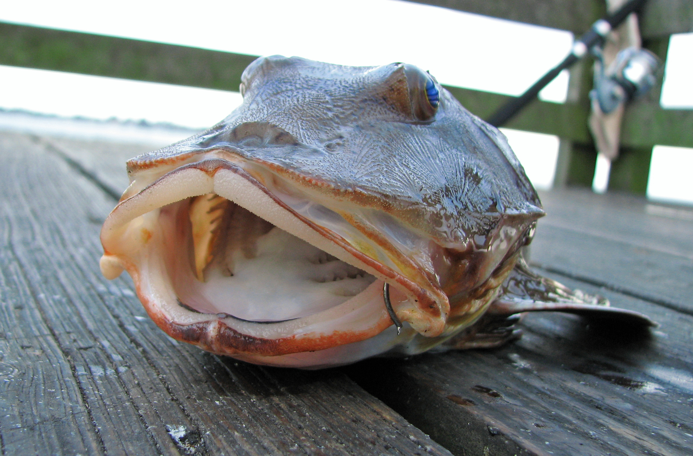 This is a large Sea Robin with a hook lodged in it's mouth. This is also on Flickr, with a CC-BY-SA license